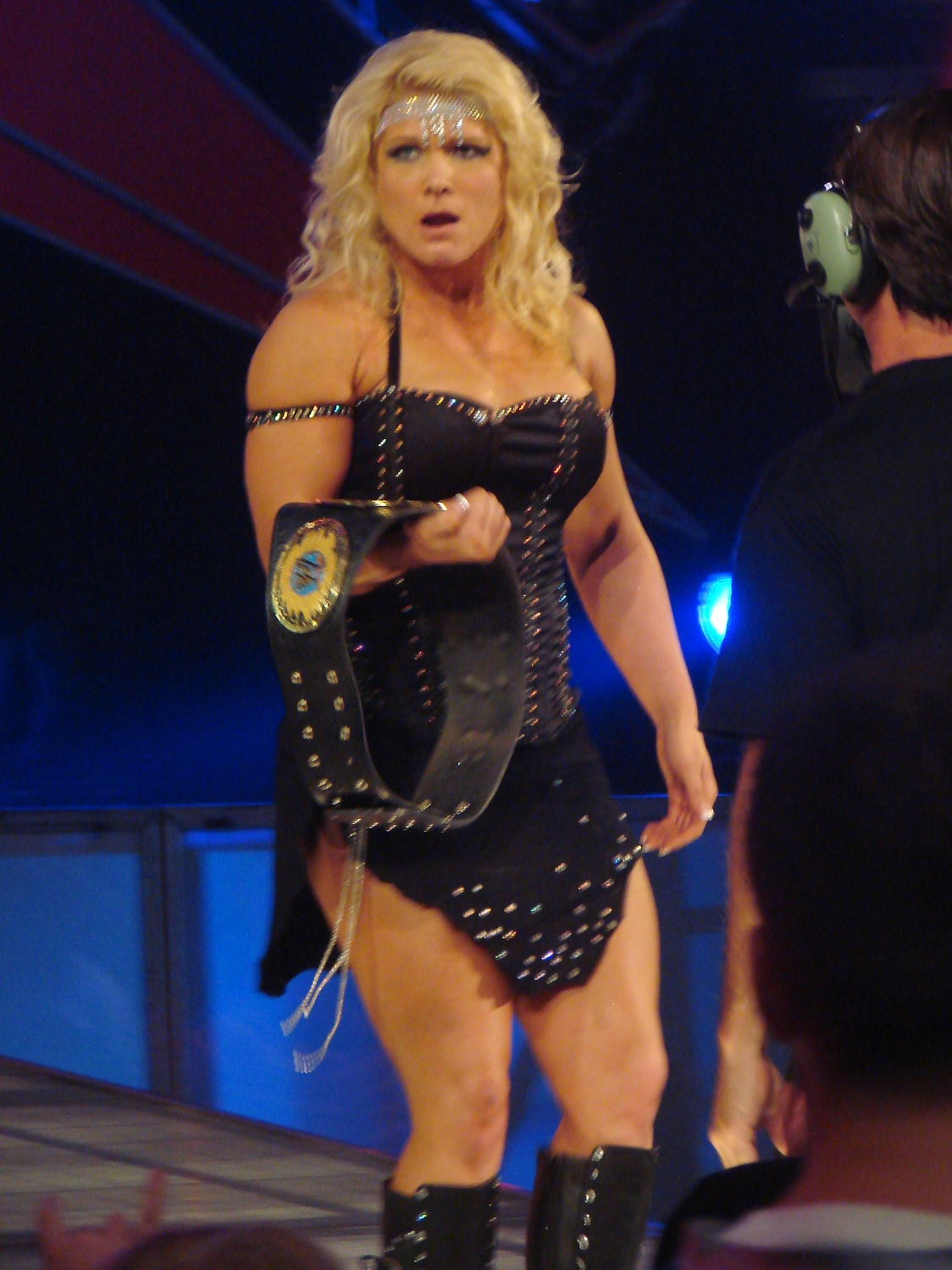 Beth Phoenix at No Mercy. Allstate Arena, Rosemont, Illinois, October 72007.